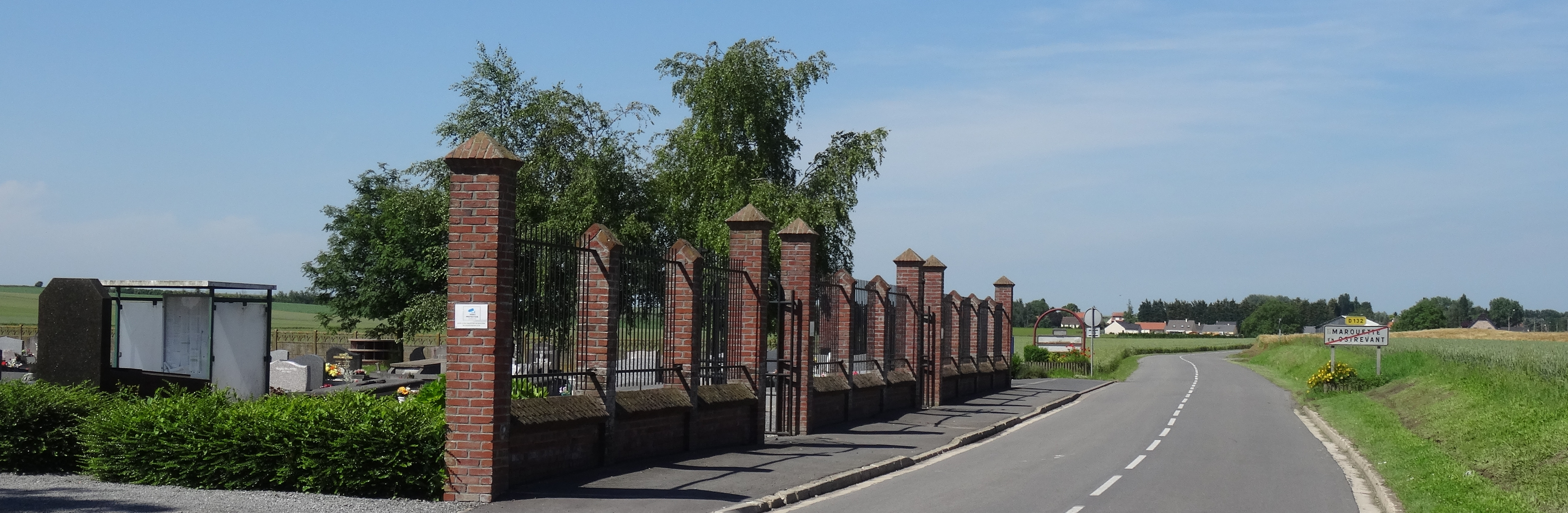 Depicted place: Q56447218